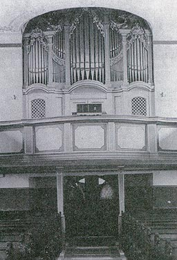 Dresden